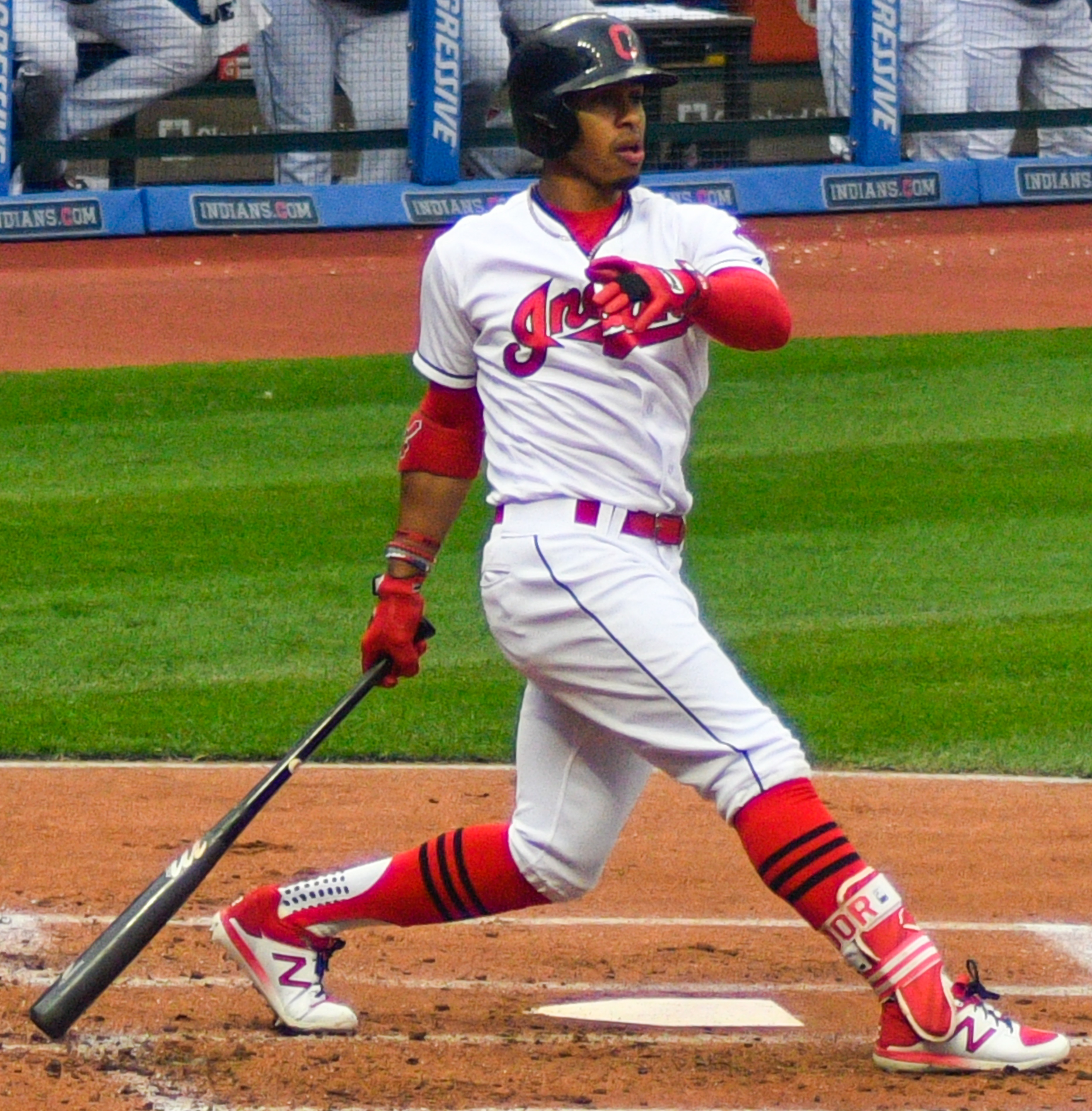 Francisco Lindor vs. Cincinnati Reds in 2017